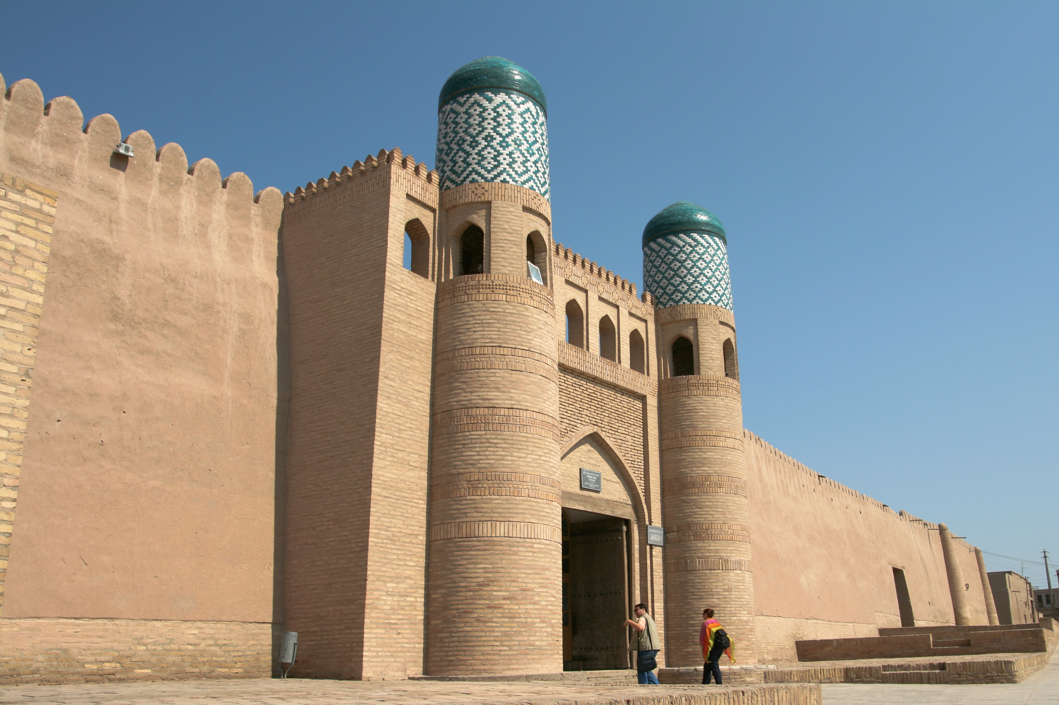 Entrance of Khiva.